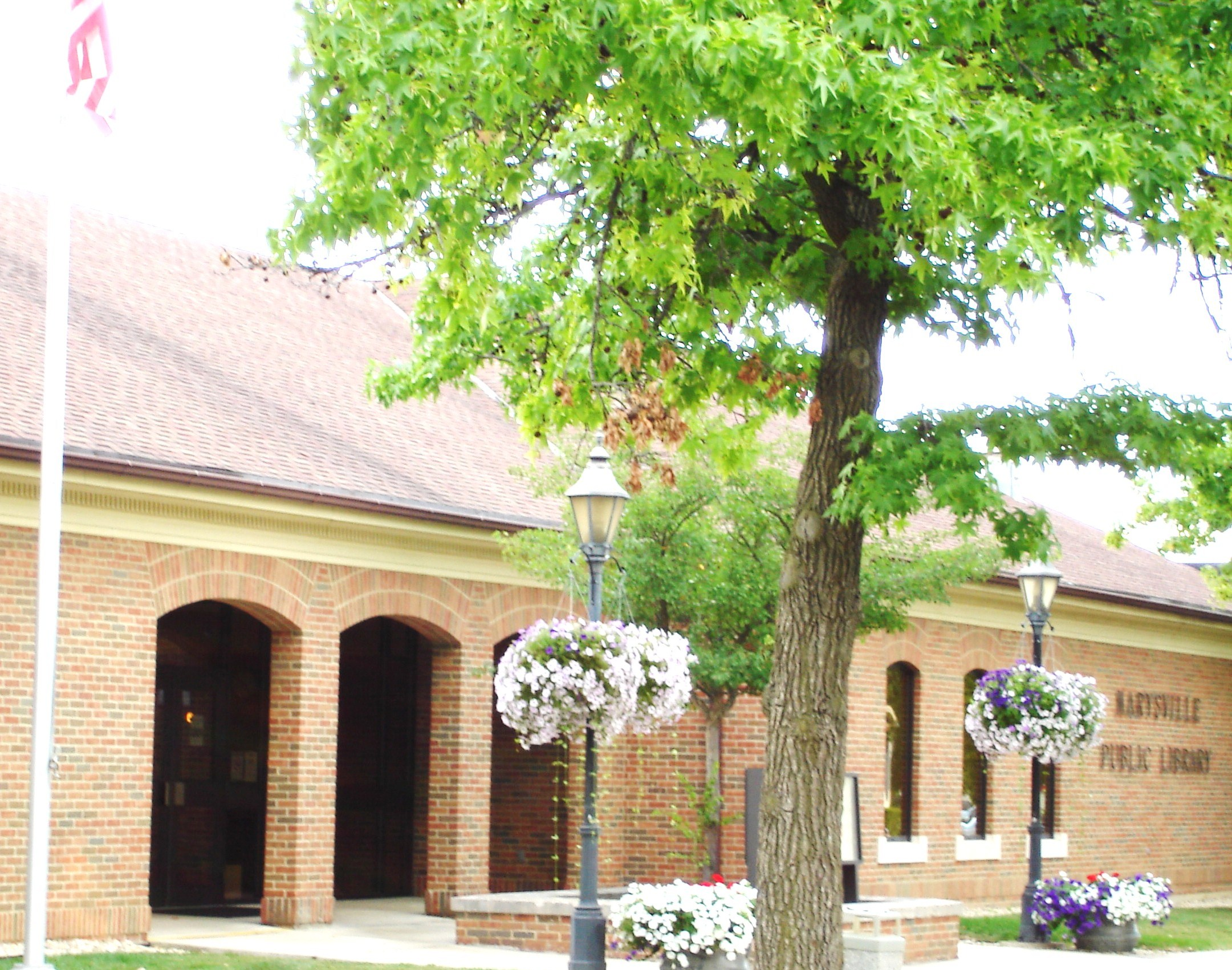 Marysville Public Library, Marysville, Ohio, United States